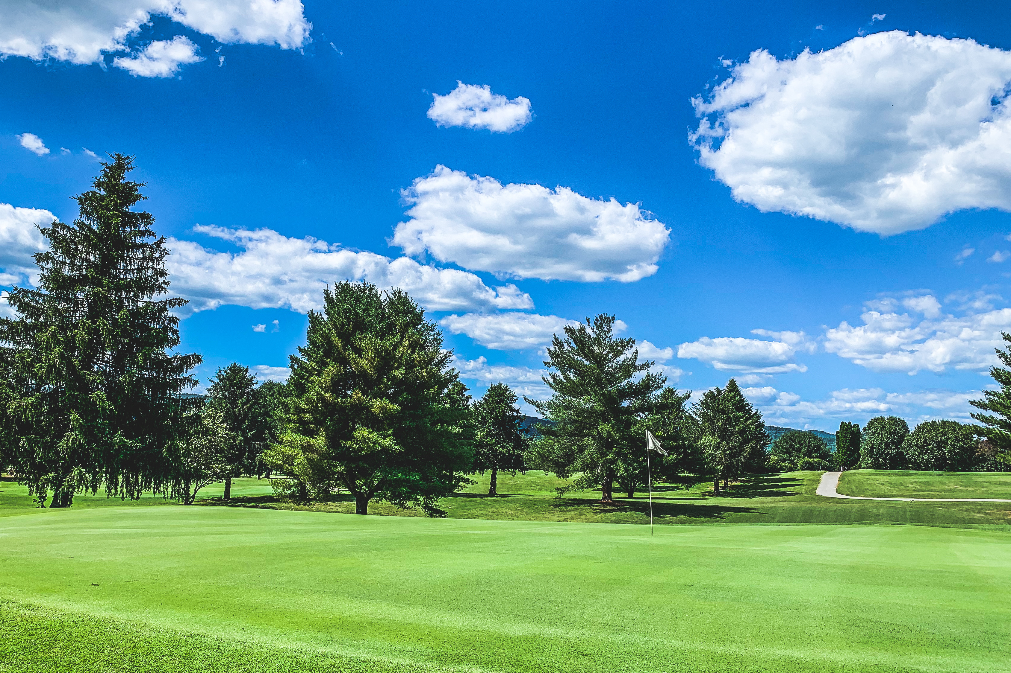 A green on a golf course in city of Bean Station, Grainger County, Tennessee, United States